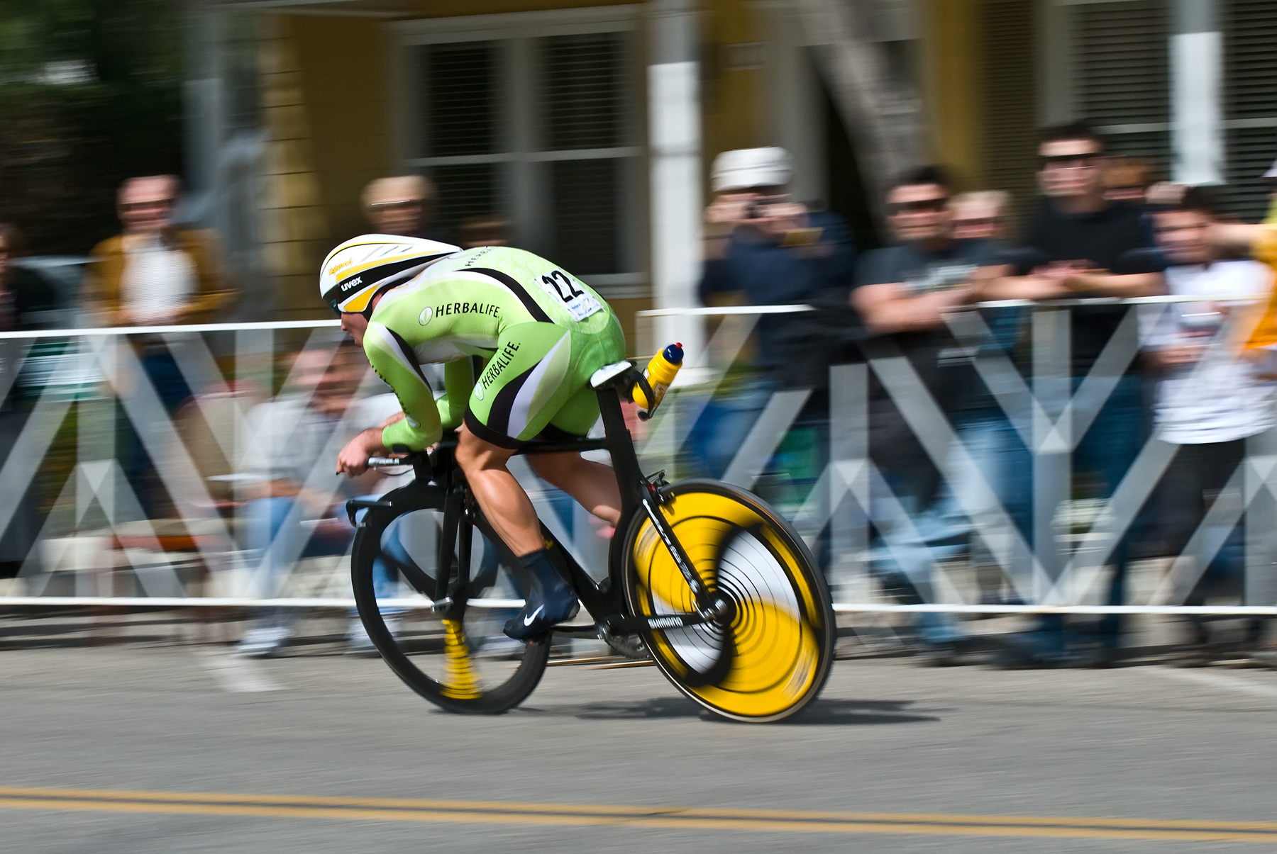 As seen on course in Los Olivos during the stage 6 time trials starting in Solvang 2009. Winner of stage 1 for the 2010 Amgen Tour of California 5/16/2010